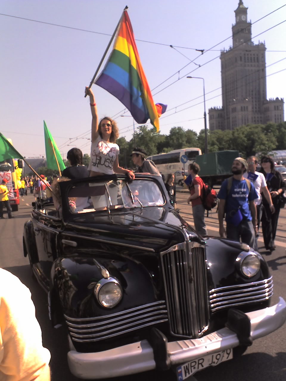 green party's car at parada rownosci 2007 in warsaw